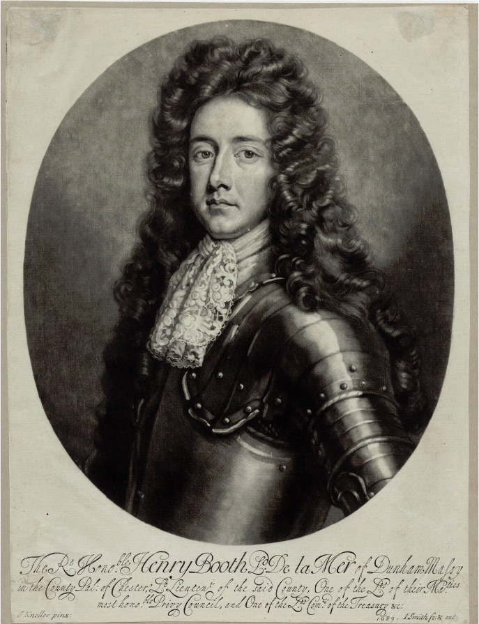 Published by John Smith, after Sir Godfrey Kneller, mezzotint, 1689.